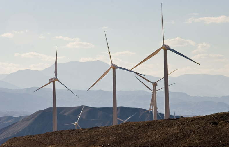 éolienne en Iran. Wind farm. Manjeel. Northwest of Iran.